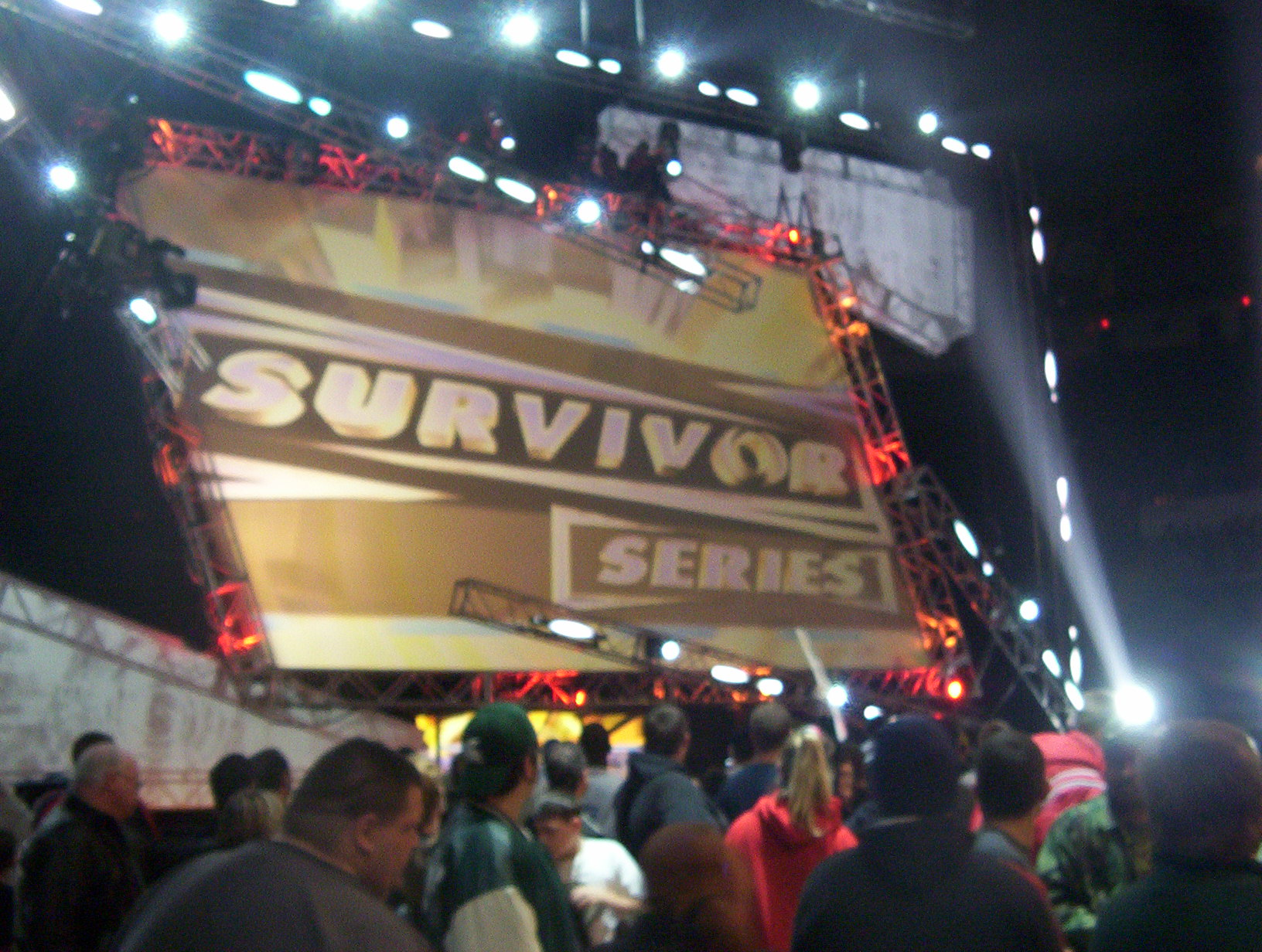 Photo I snapped during the 2005 Survivor Series PPV